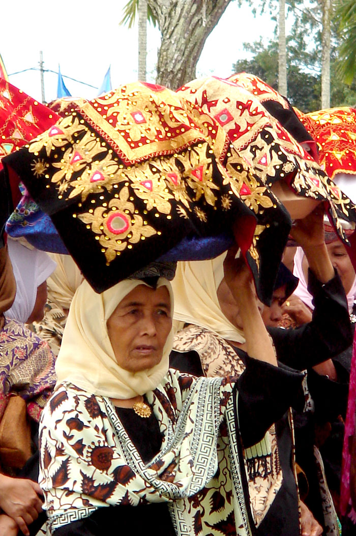 Women carrying platters of food to a ceremony in Pagaruyung, West Sumatra, Indonesia.